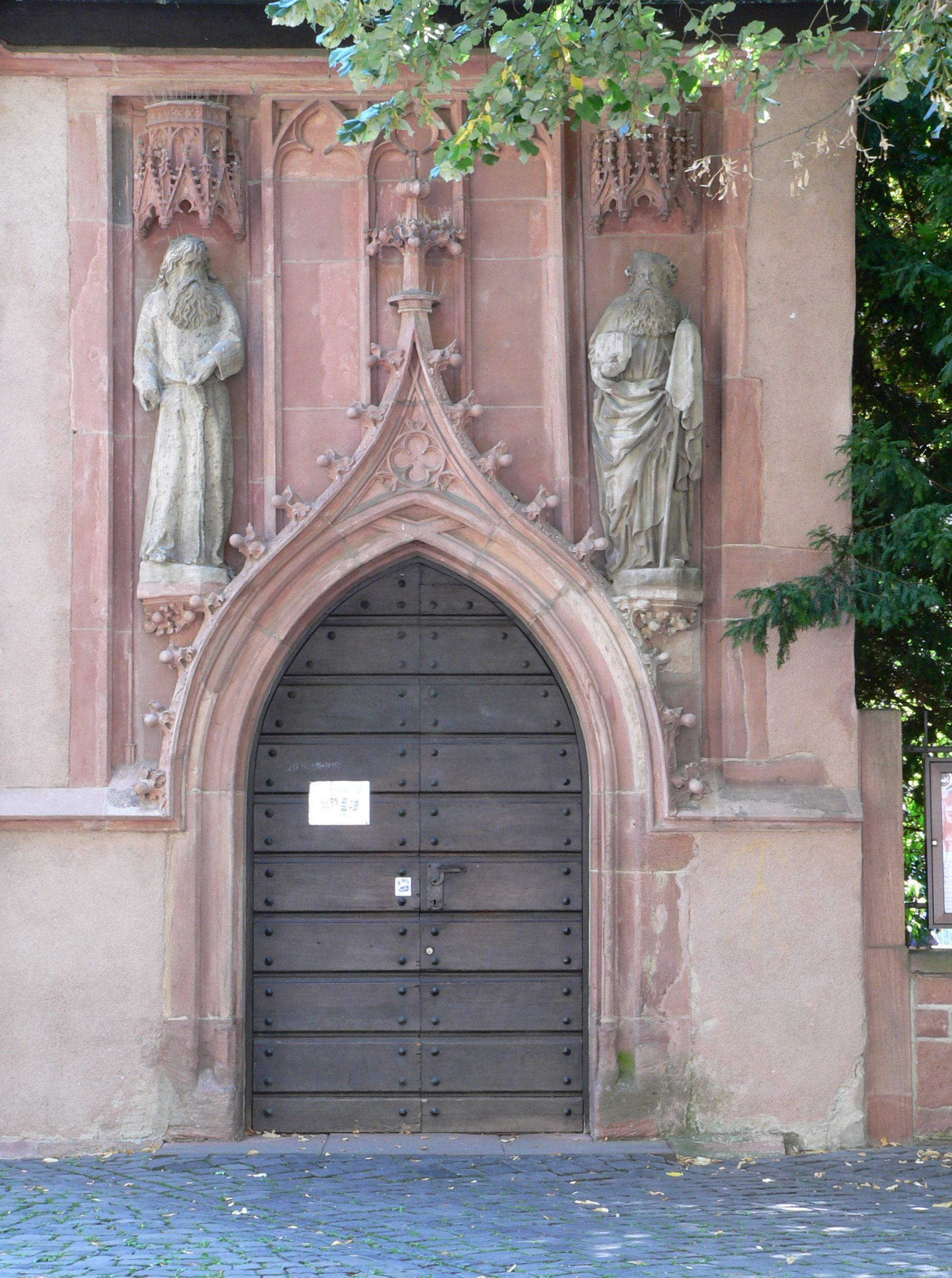 Northern entrance of St.Justin Church in Frankfurt-Höchst with the sculptures of the saints Paul of Theben and Anthony the Great